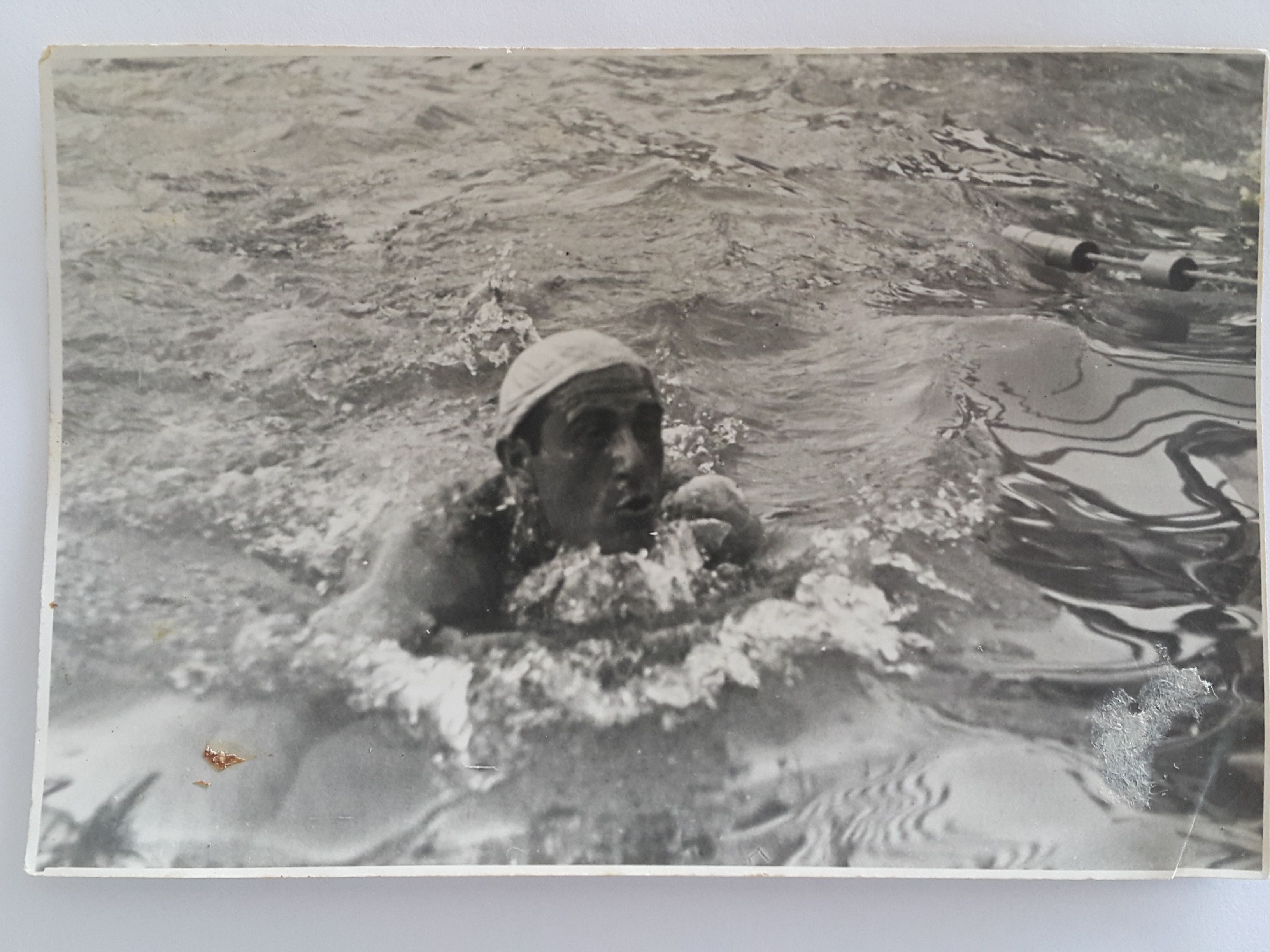 Issac Yeheskel in swimming race in Peteh Tikva - 1942